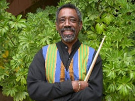 Sherman Ferguson - UCLA News